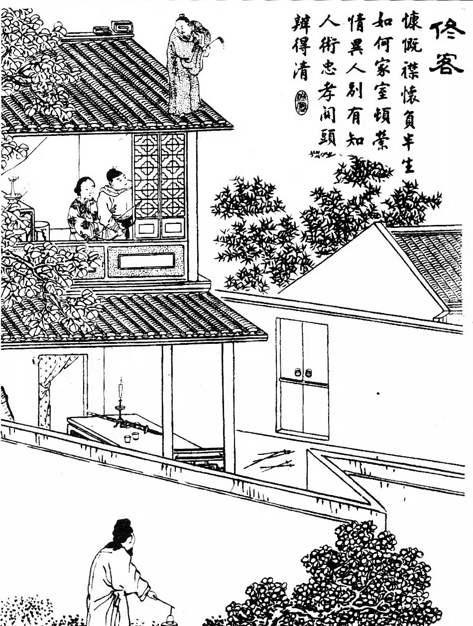 19th-century illustration of a scene from the short story "Traveller Tong" collected in Strange Tales from a Chinese Studio (1740).